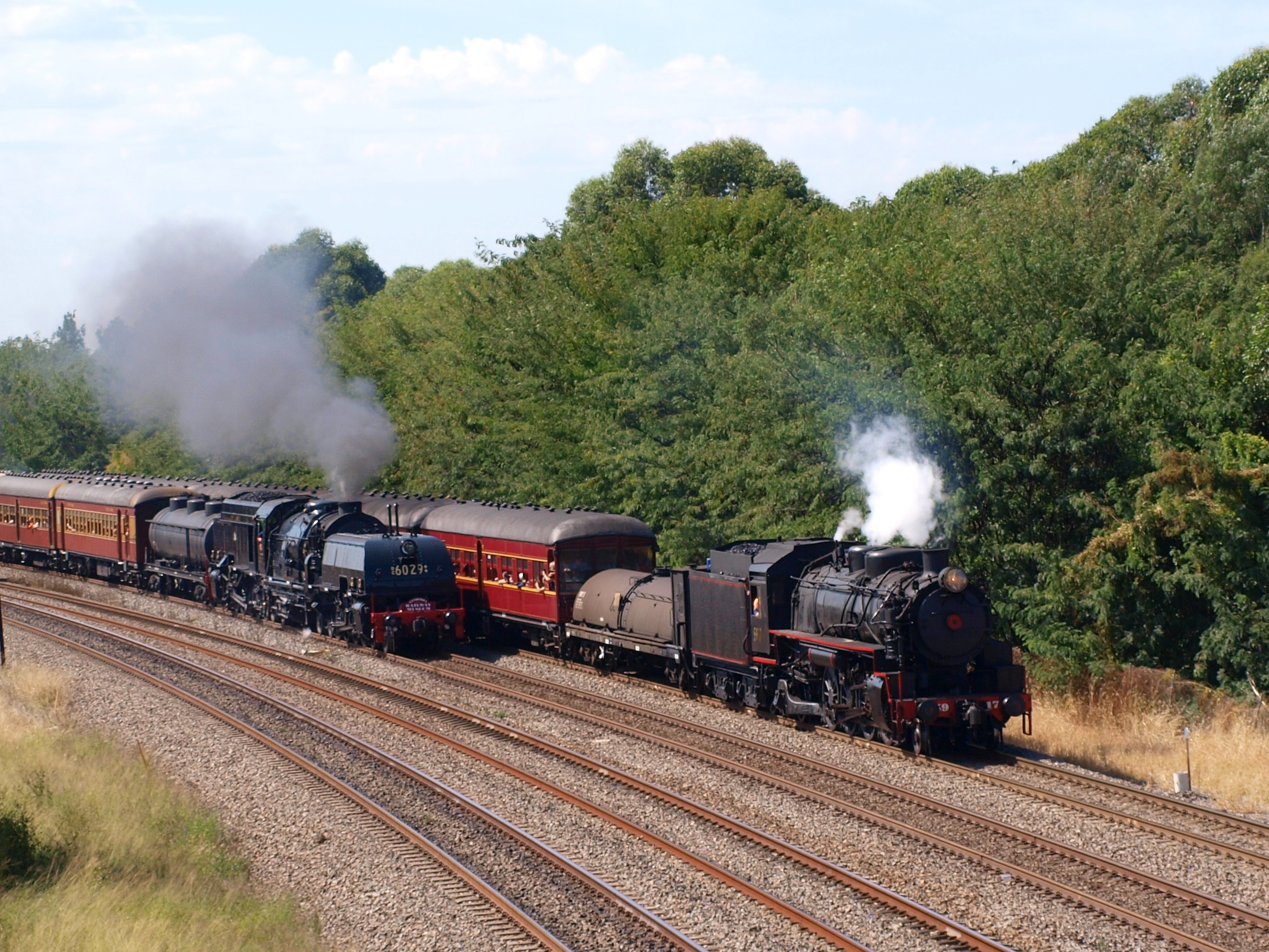 Steamfest 2016, Maitland, NSW, Australia